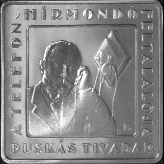 Scan of the obverse of the 2008 Hungarian Puskas commemorative coin